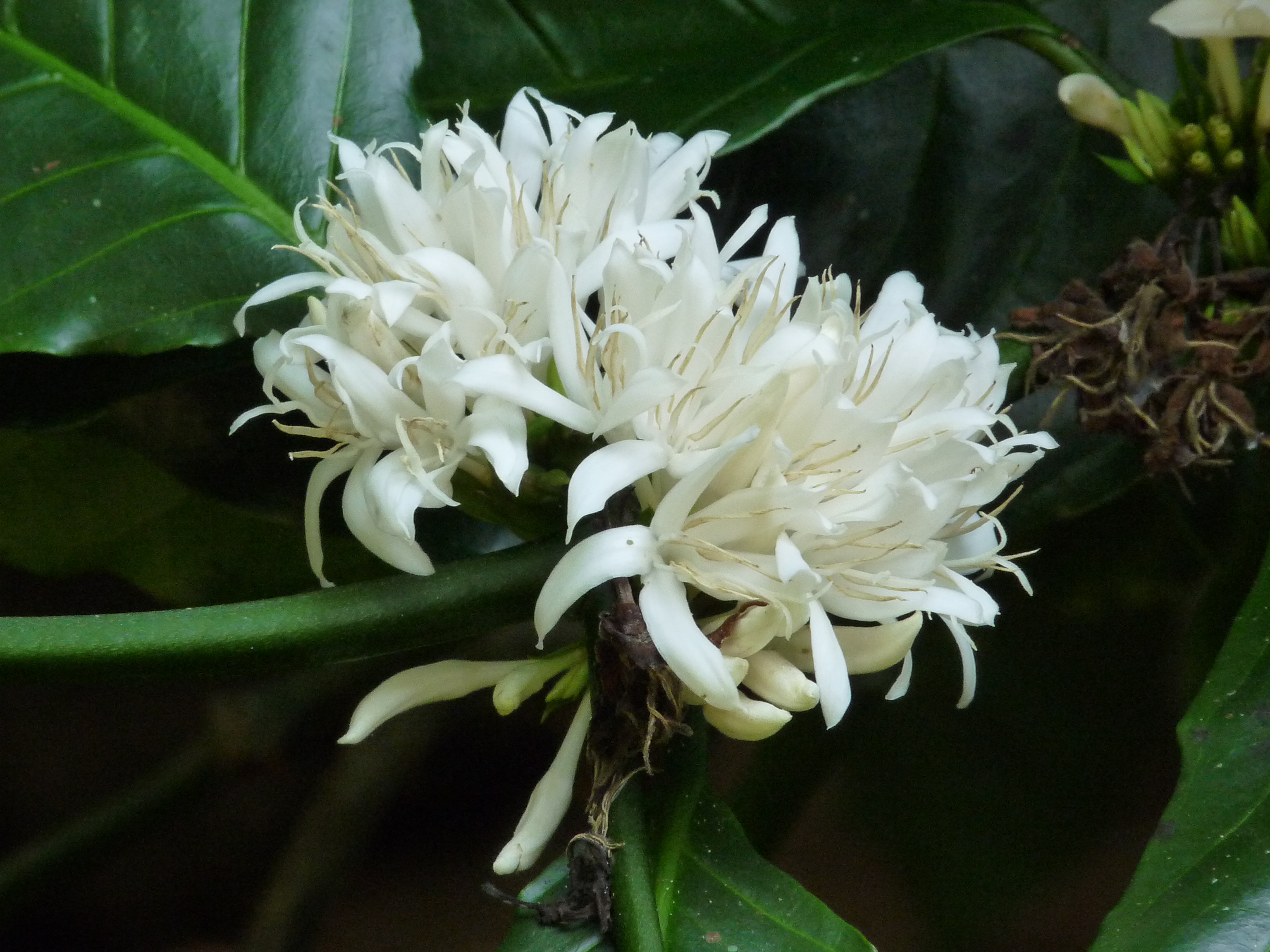 Robusta coffee (Coffea canephora; syn. Coffea robusta) is a species of coffee that has its origins in central and western sub-Saharan Africa. It is a species of flowering plant in the Rubiaceae family. Though widely known as Coffea robusta, the plant is scientifically identified as Coffea canephora, which has two main varieties - Robusta and Nganda. The plant has a shallow root system and grows as a robust tree or shrub to about 10 metres. It flowers irregularly, taking about 10–11 months for cherries to ripen, producing oval-shaped beans. The robusta plant has a greater crop yield than that of Coffea arabica, and contains more caffeine - 2.7% compared to arabica's 1.5%. As it is less susceptible to pests and disease, robusta needs much less herbicide and pesticide than arabica. Originating in upland forests in Ethiopia, C. canephora grows indigenously in Western and Central Africa. It was not recognized as a species of Coffea until the 19th century, about a hundred years after Coffea arabica.